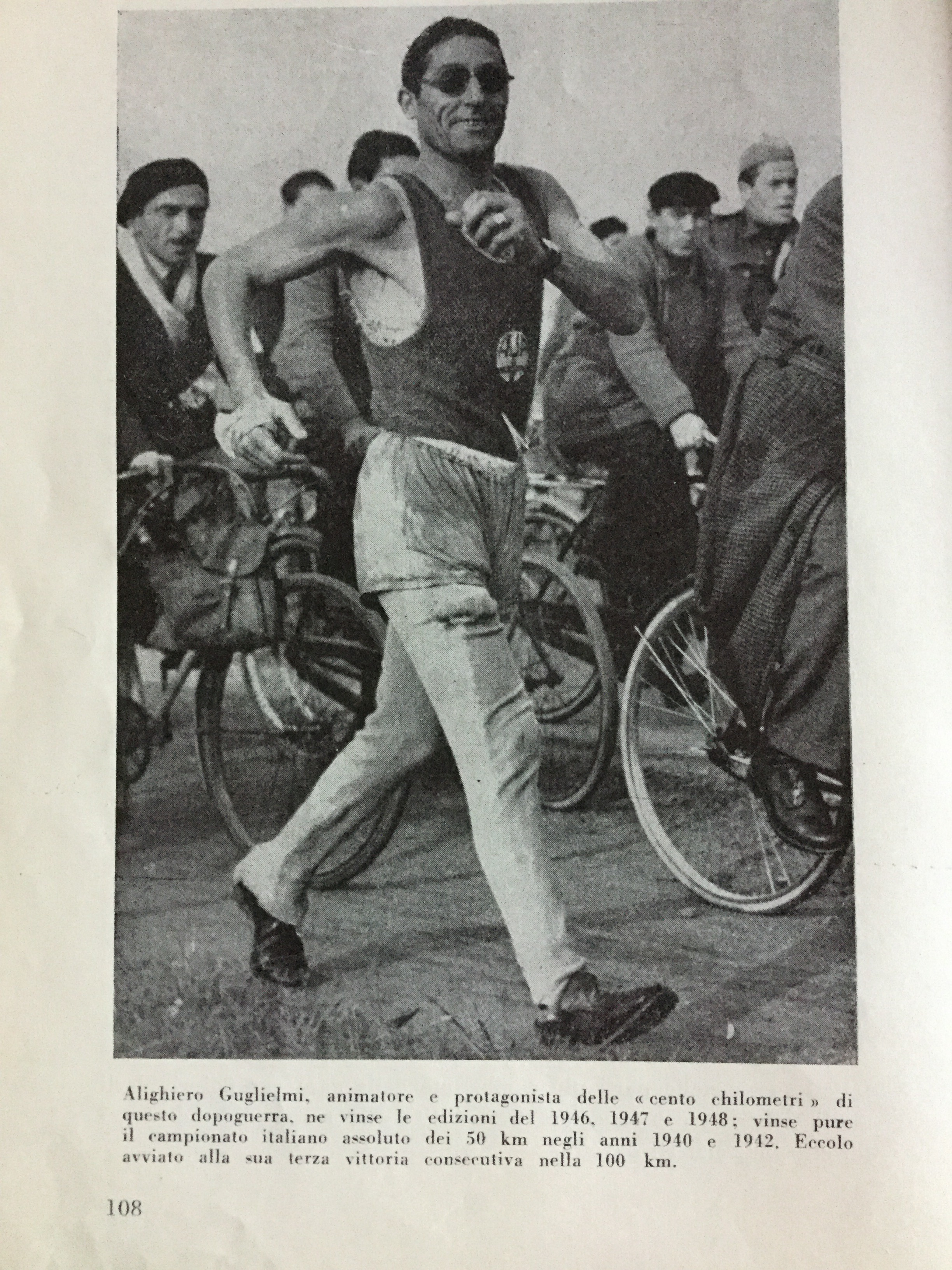 Alighiero Guglielmi, animator and protagonist of the "one hundred kilometers" of the post-war period, won the editions of 1946.1947, and 1948